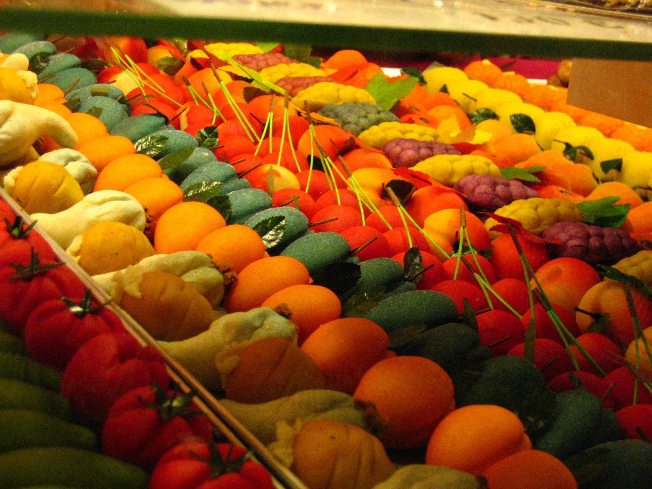 Marzipan fruits at the Nuremberg Christmas Market.